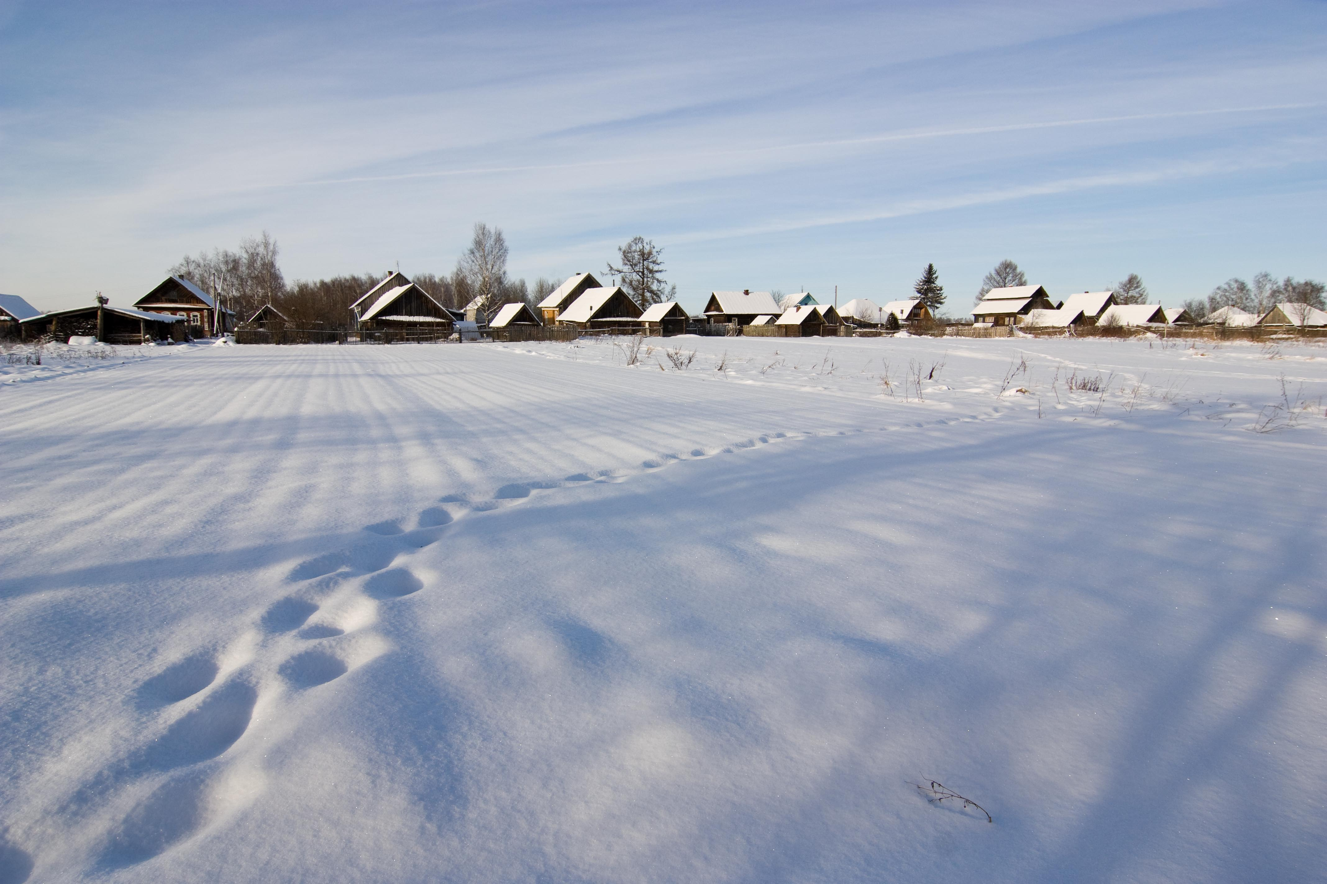 Village Privalovo, Nizhny Novgorod Oblast. Winter.